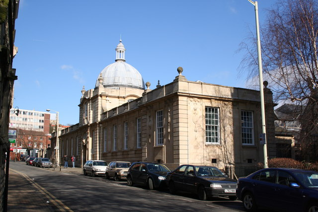 Lincoln Public Library. The new library was made possible through the generous benefaction of Scottish-American millionaire Andrew Carnegie to a design by Sir Reginald Blomfield. It was opened by Old Lincolnian Dr.T.E.Page on 24th February 1914, just a few weeks before the outbreak of the first world war.